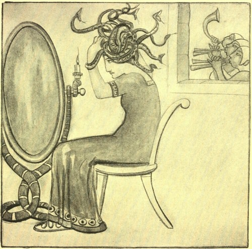 Medusa by Oliver Herford from the book The Mythological Zoo (published 1912).